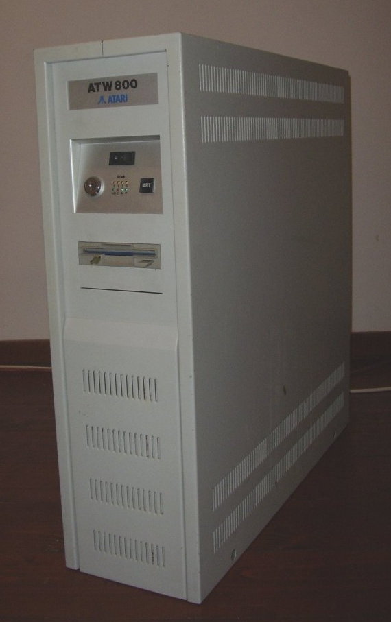 Atari ATW800 front view